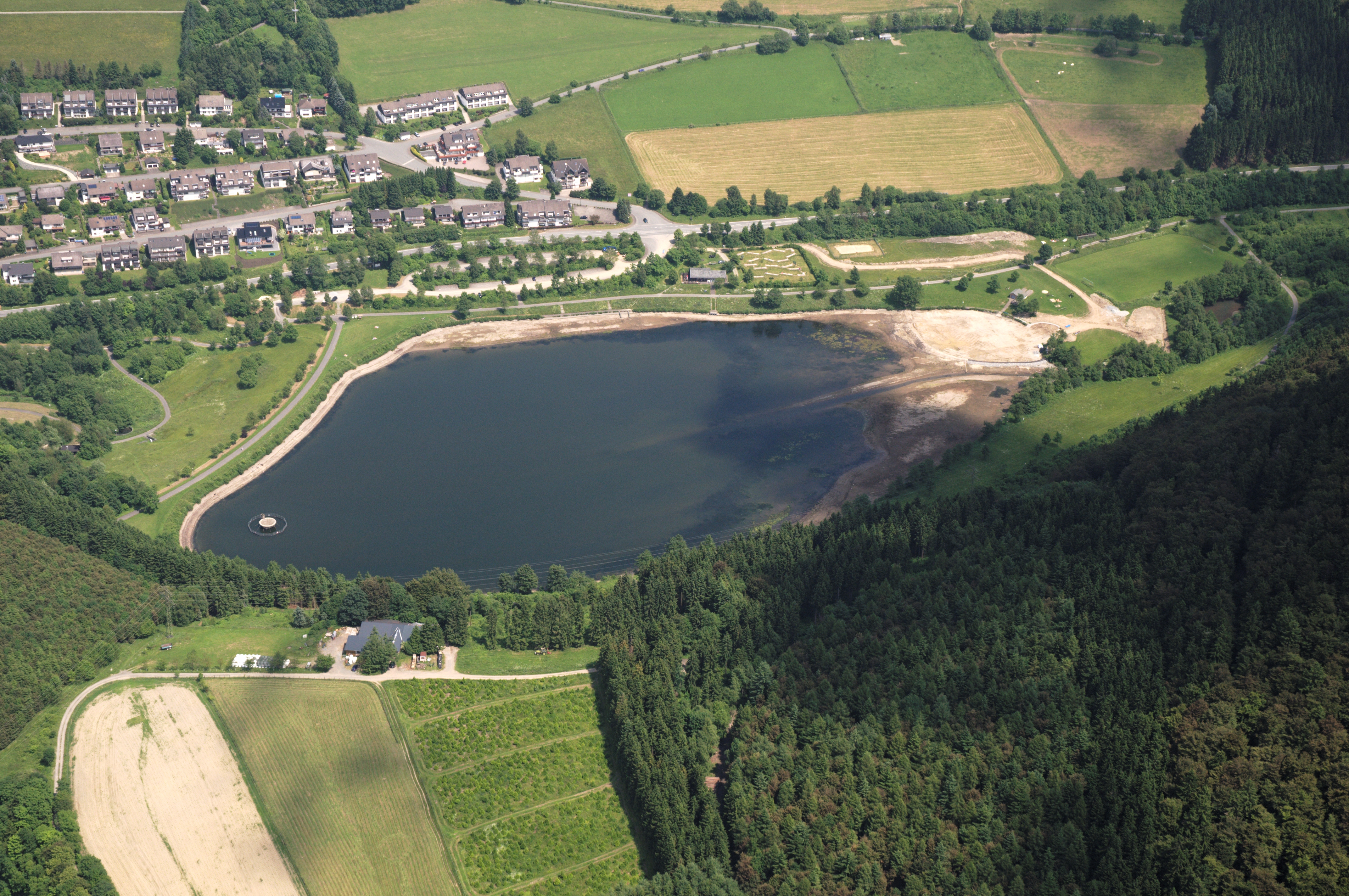 Fotoflug Sauerland-Ost: Hillestausee bei Niedersfeld The making of this document was supported by the Community-Budget of Wikimedia Germany.